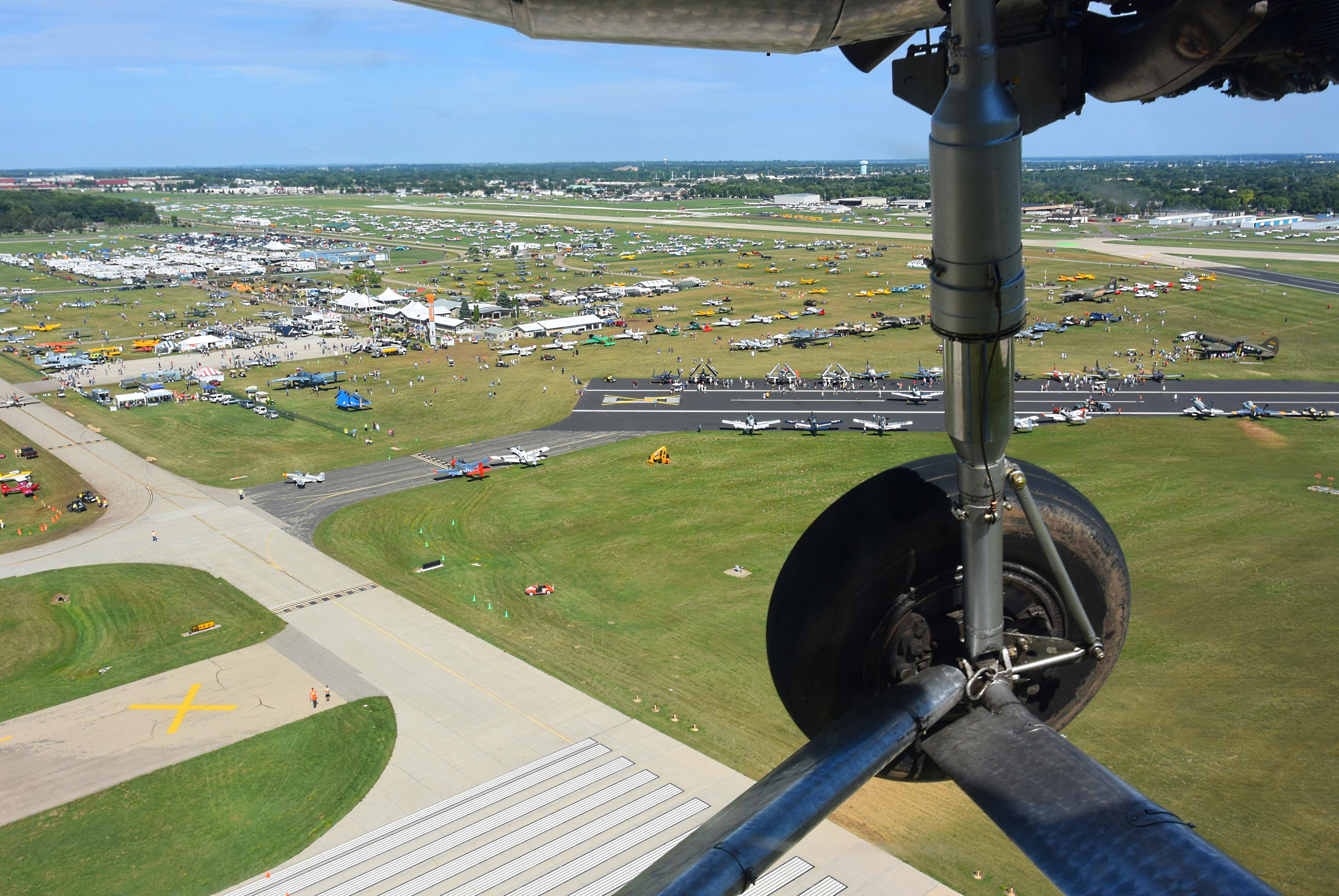 EAA AirVenture Oshkosh 2016 seen from a Ford Trimotor